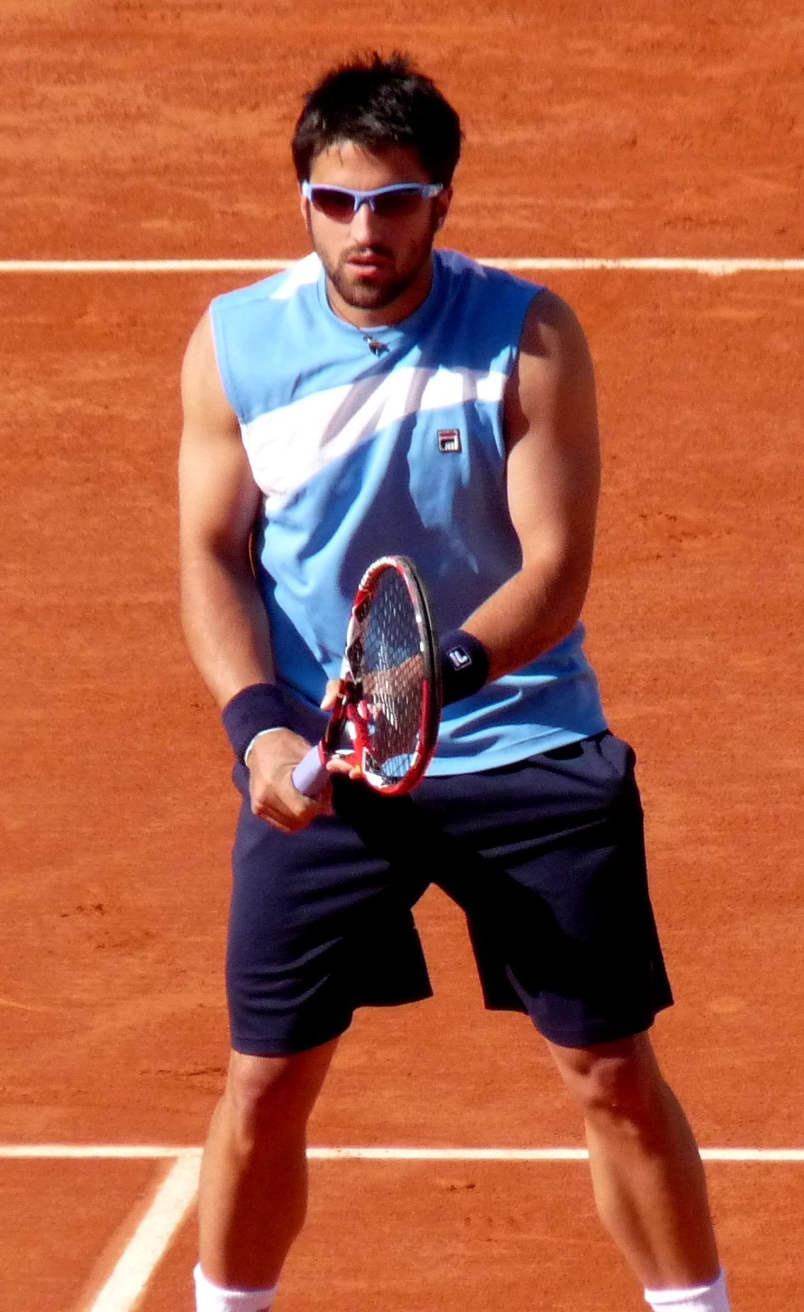 Janko Tipsarević against Andy Murray in the 2009 French Open third round